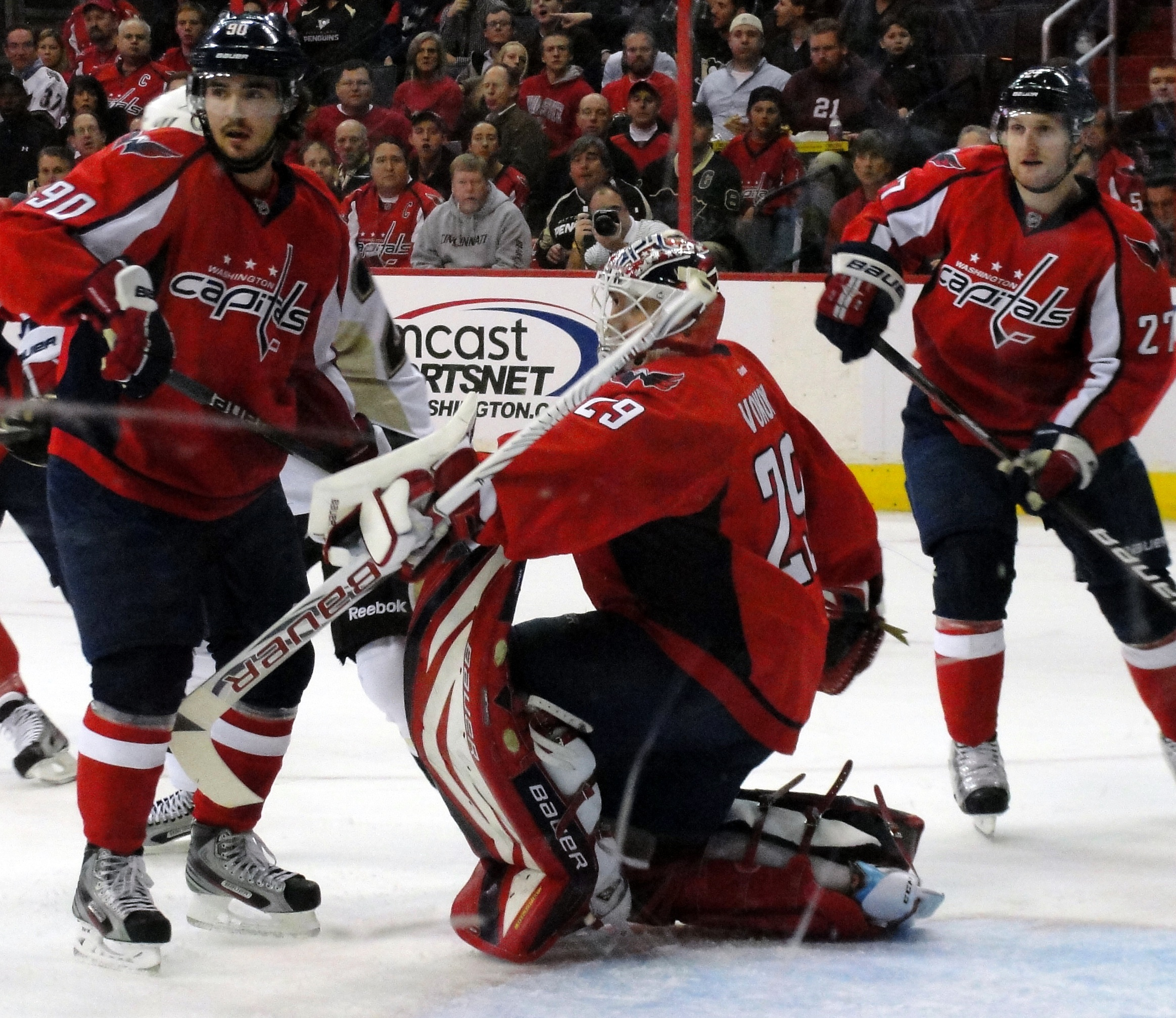 Tomáš Vokoun of the Washington Capitals follows the puck after making a save in a January 11, 2012 game against the Pittsburgh Penguins at Verizon Center in Washington, D.C.